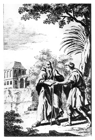 Illustration of Zadig, by Voltaire.